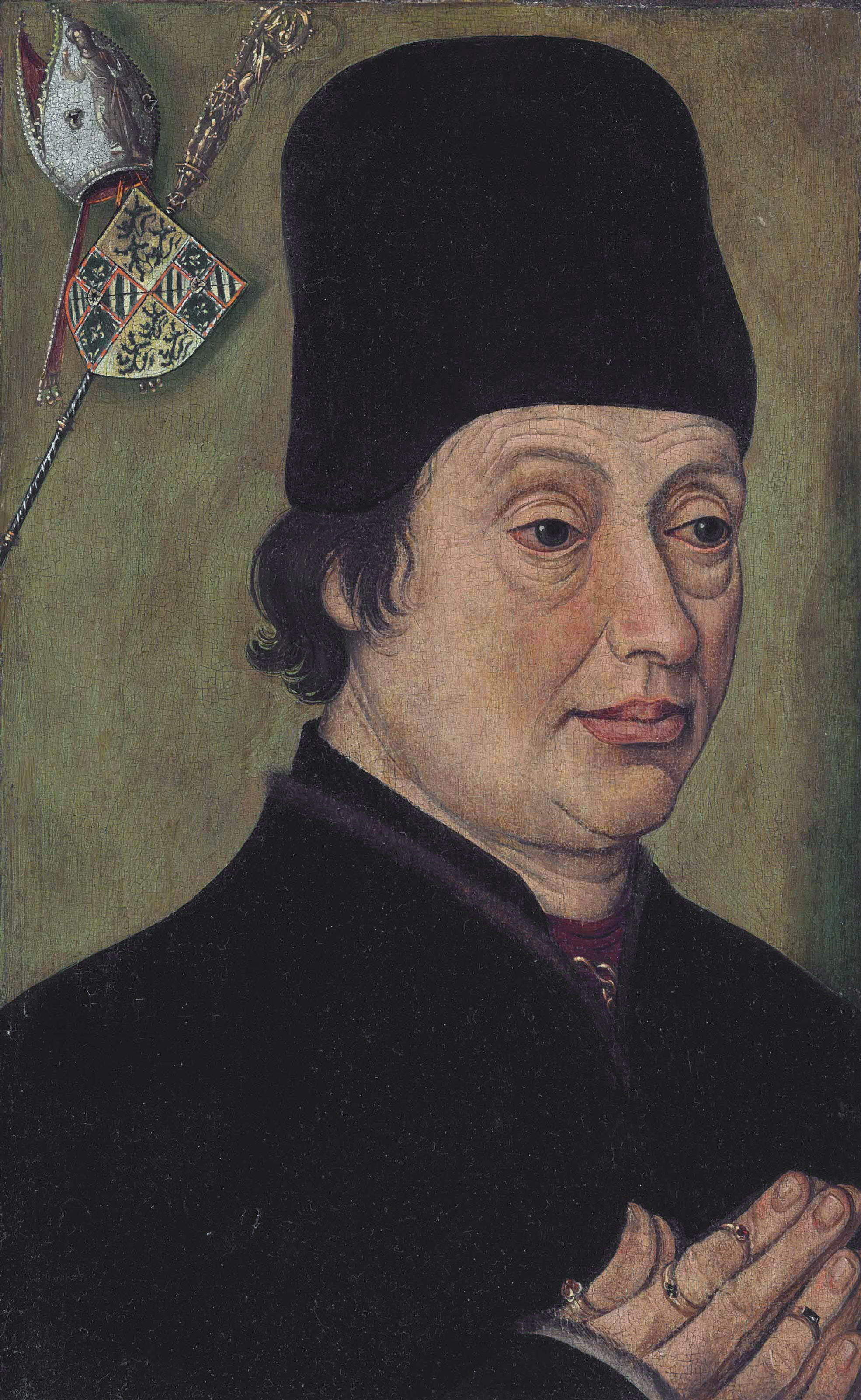 Jean de Bourgogne, Bishop of Cambrai oil on panel 35.5 x 22.3 cm circa 1513